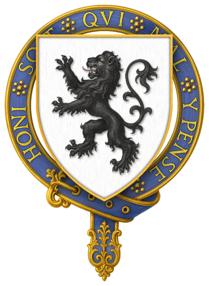 Sir Bryan Stapleton, KG BELTZ, George Frederick, Memorials of the Order of the Garter from Its Foundation to the Present Time, London: William Pickering, 1841. “ Sir Bryan Stapleton… Arms: Argent, a lion rampant Sable. ”